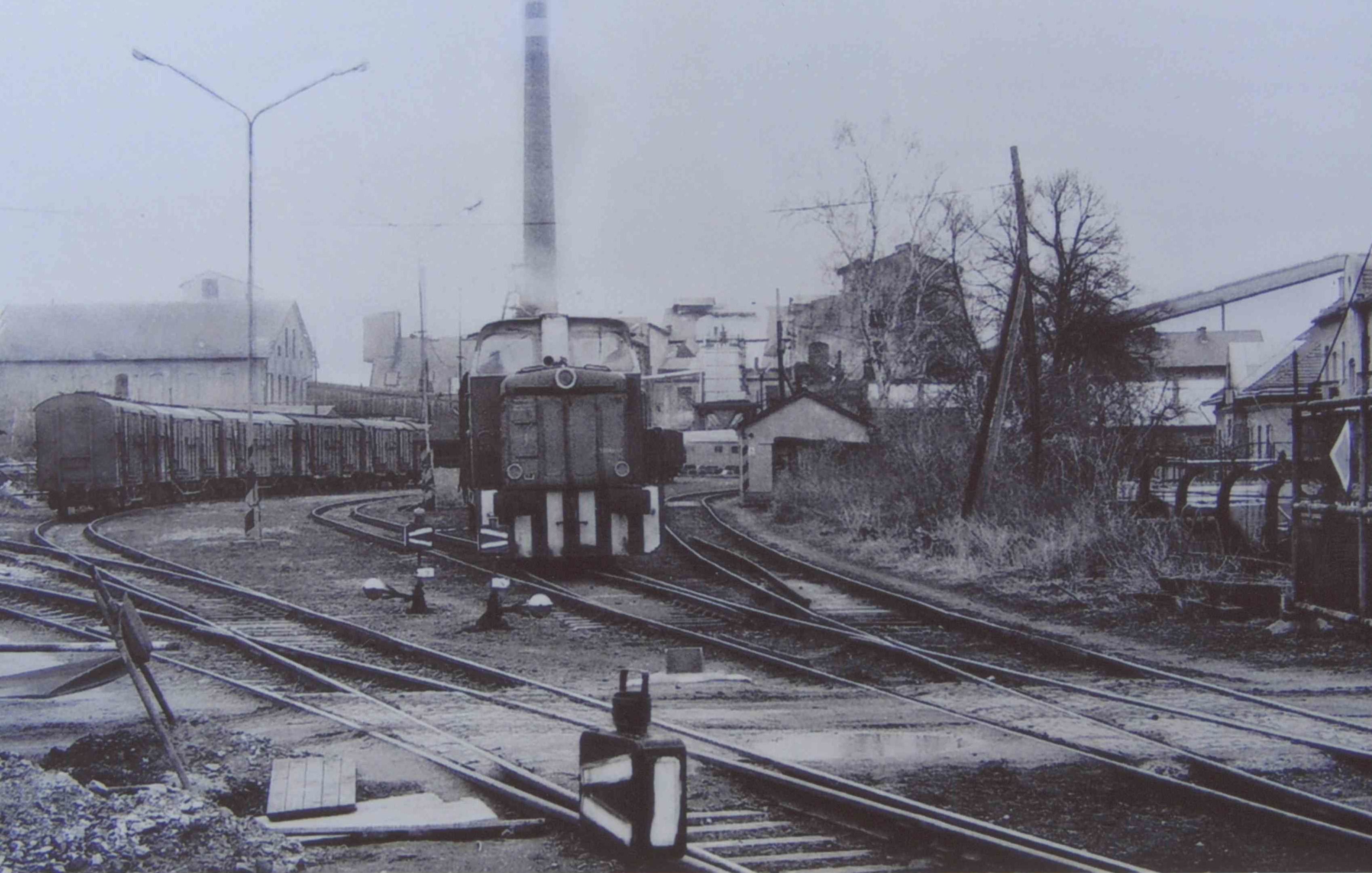 Kostelec nad Labem - sugar factory